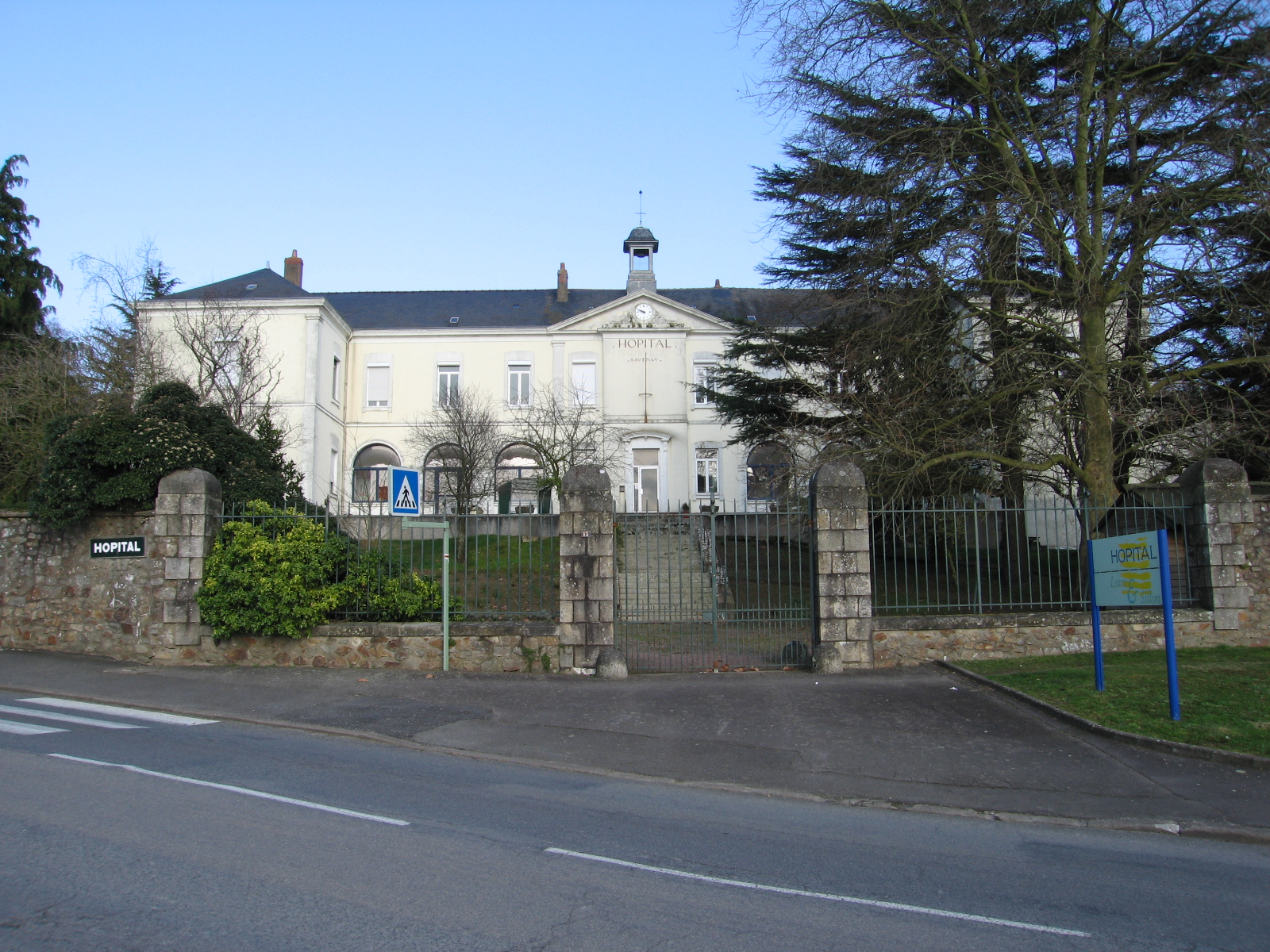 Hospital in Savenay, France